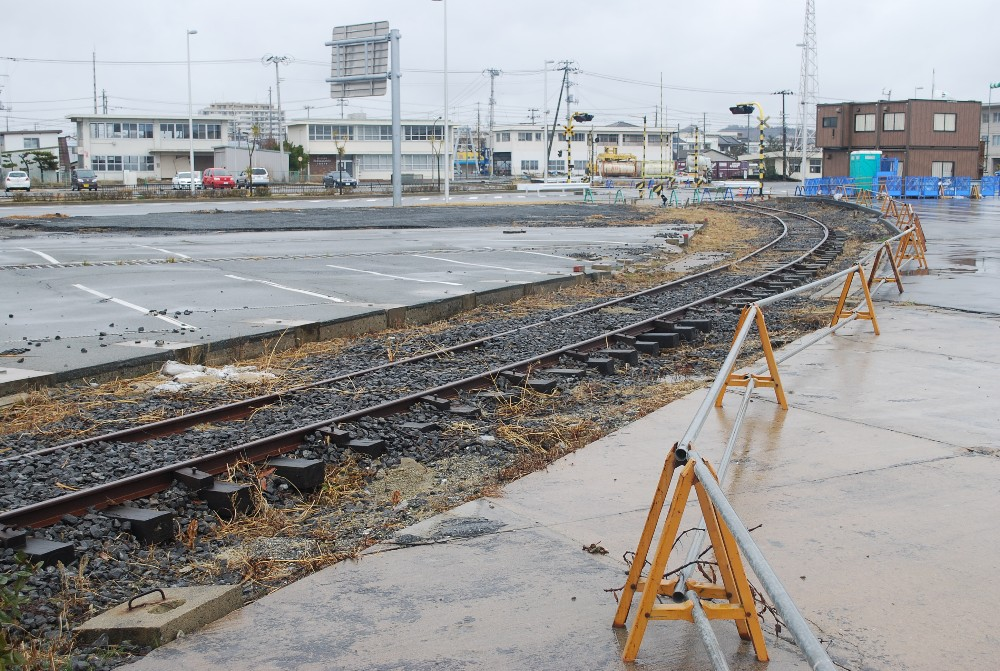 The track which was damaged of the tsunami,Fukushima Rinkai Railway,Iwaki-city,Japan